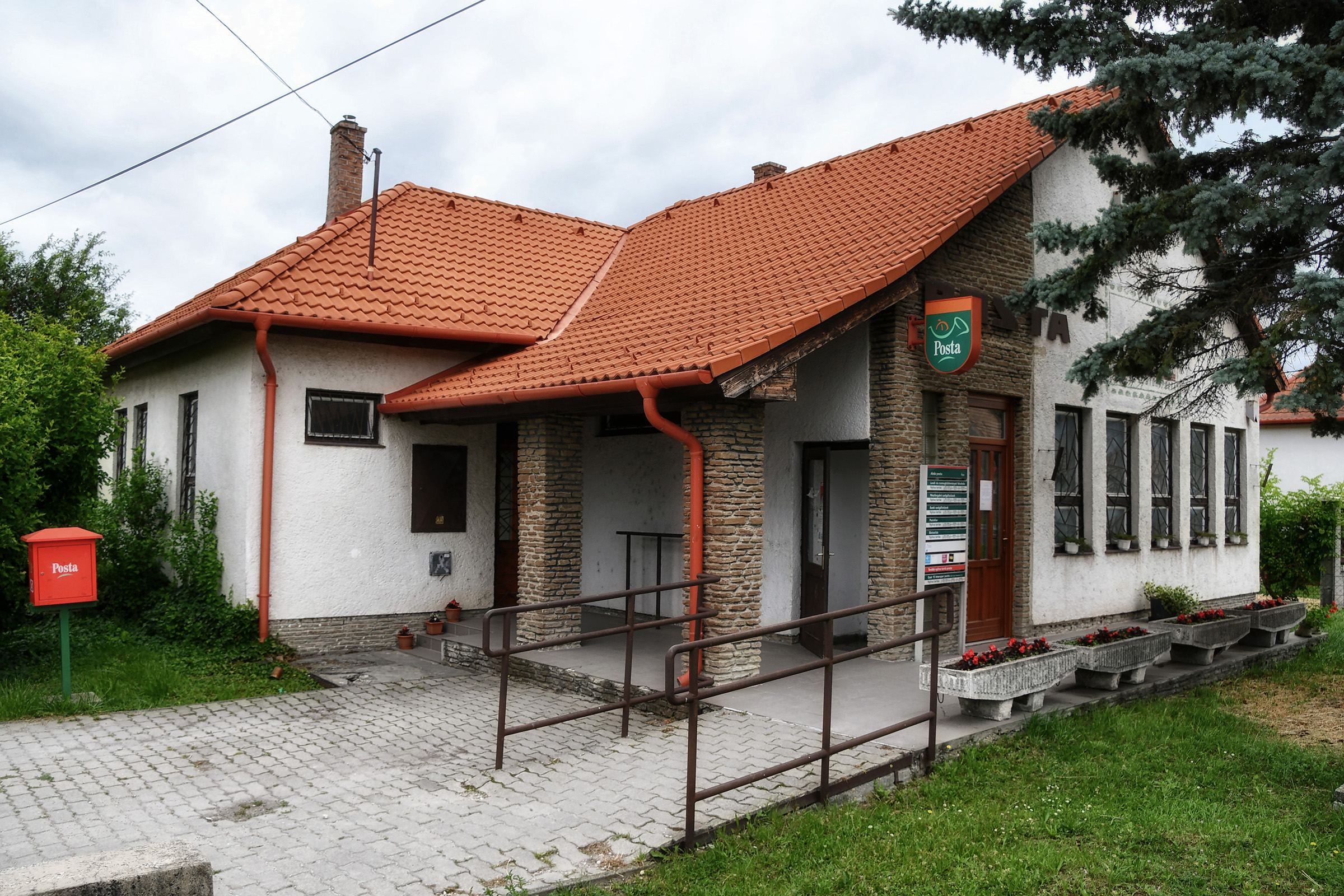 The post office in Abda, Hungary